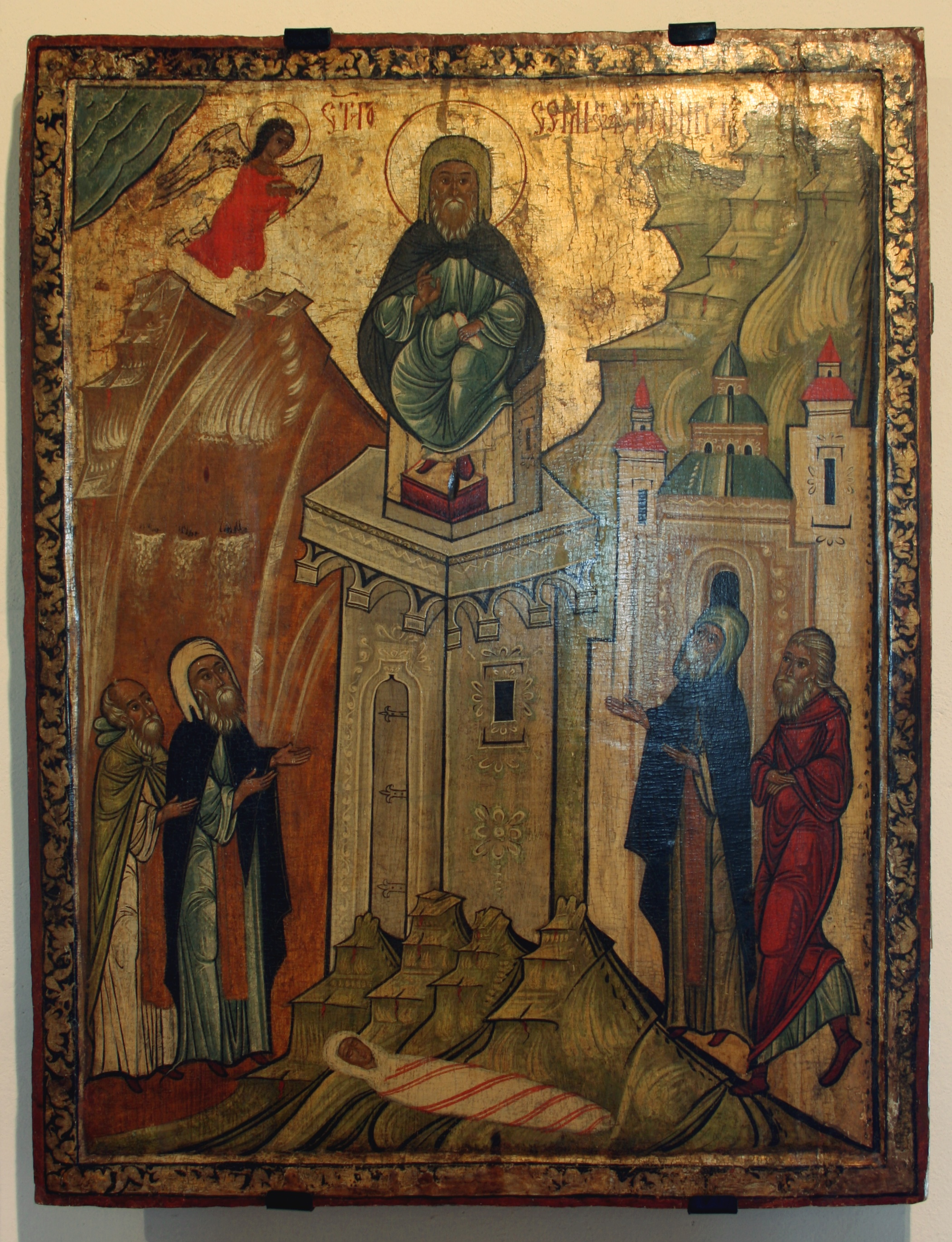 Simeon Stylites - an icon of second half of the 16th cent. from Kostarowce, Historic Museum in Sanok, Poland